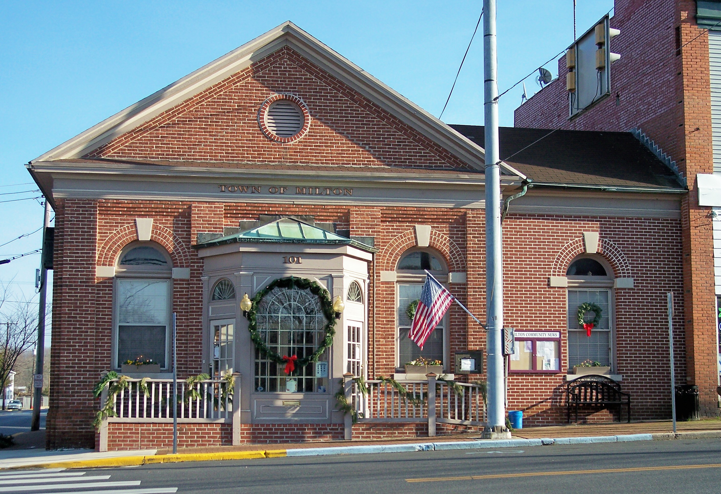 Town Hall of Milton, Delaware on Federal Street (Delaware Route 5)